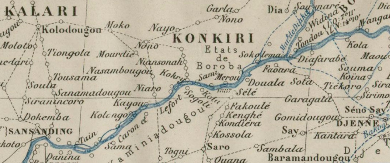 Mapa de Monimpé